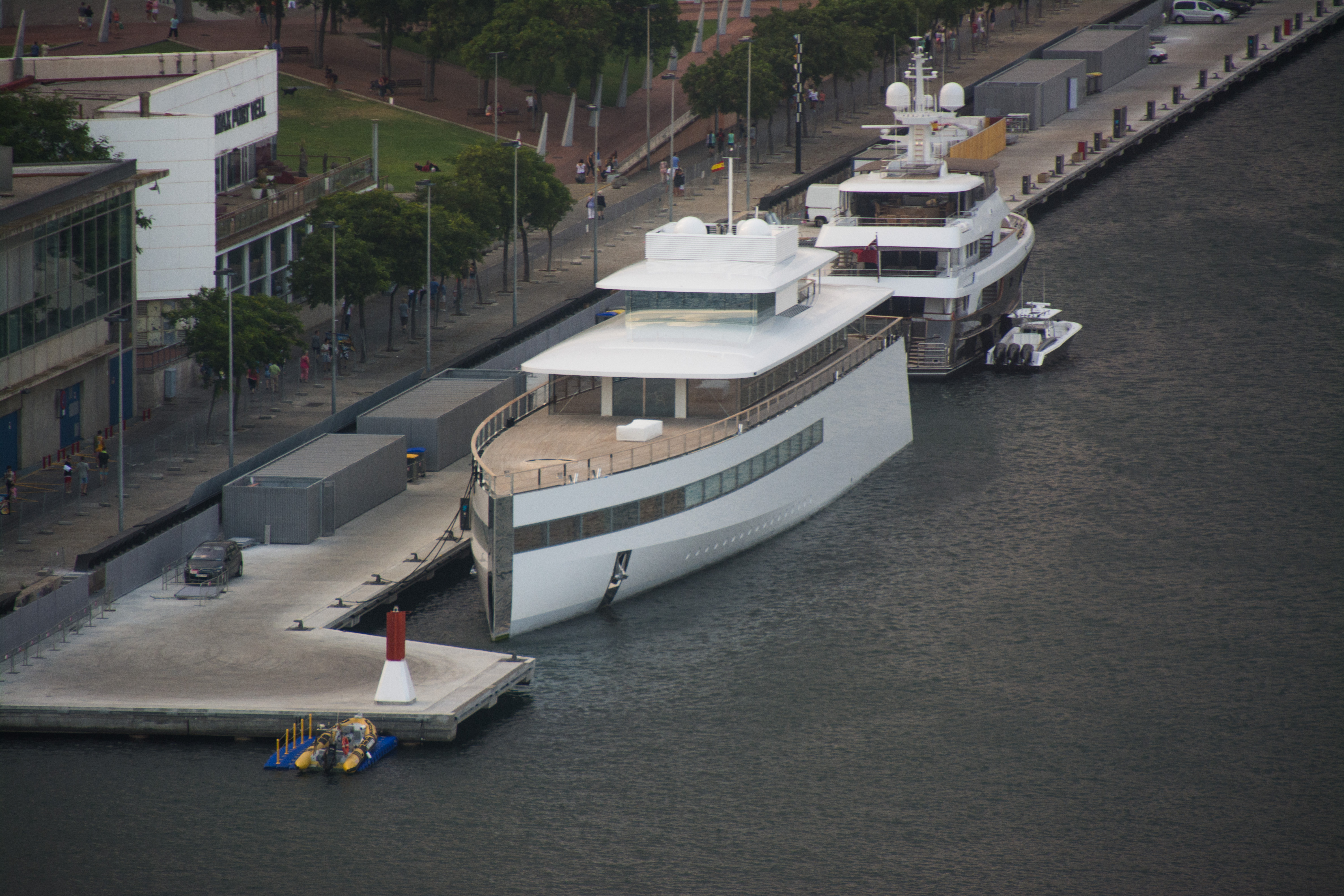 Steve Jobs yacht Venus in the harbour of Barcelona